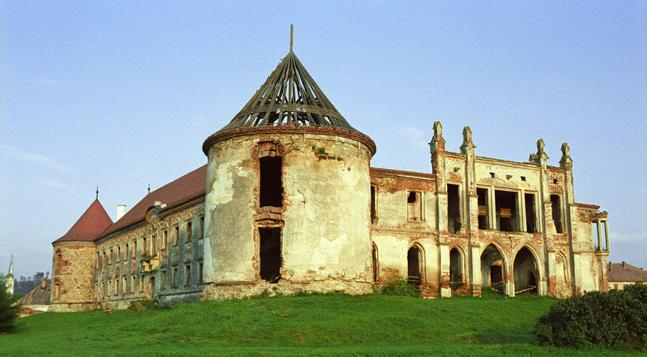 Castle of the Bánffy family, Bonţida, Romania